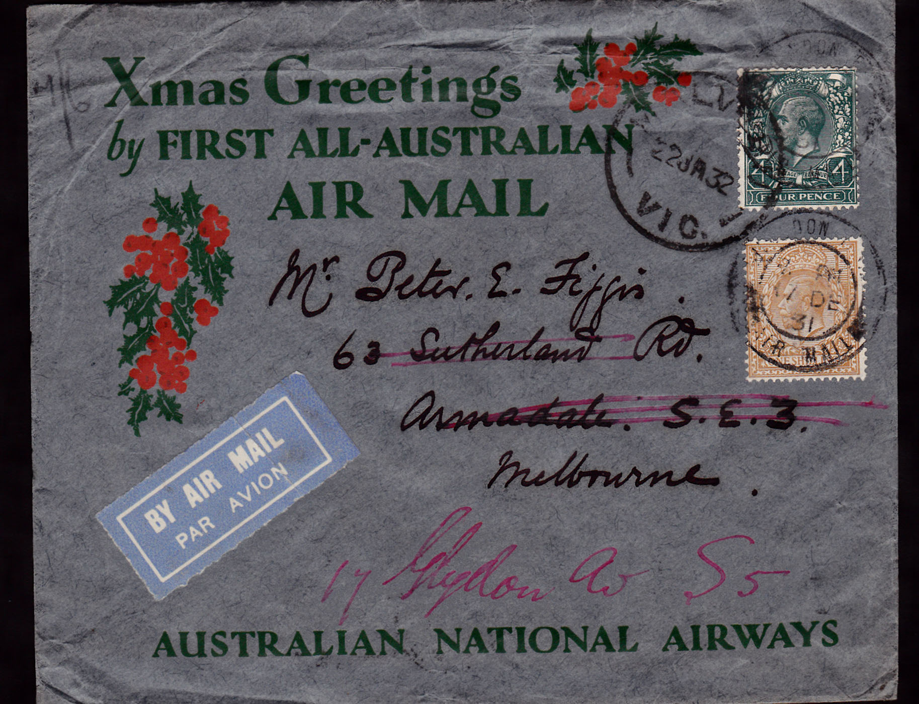 envelope for 1931 Christmas airmail flight England to Australia officially redirected on arrival